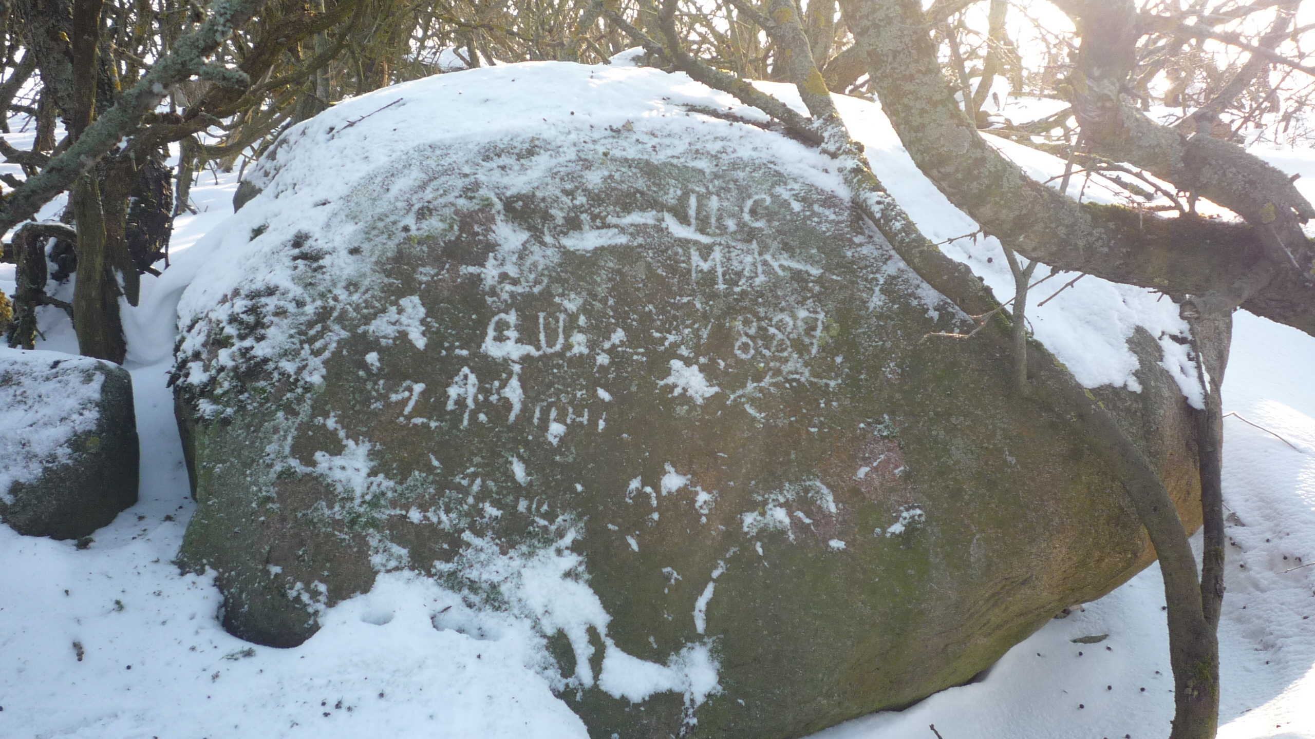 A stone on Hanerahu, a small island near Hiiumaa.